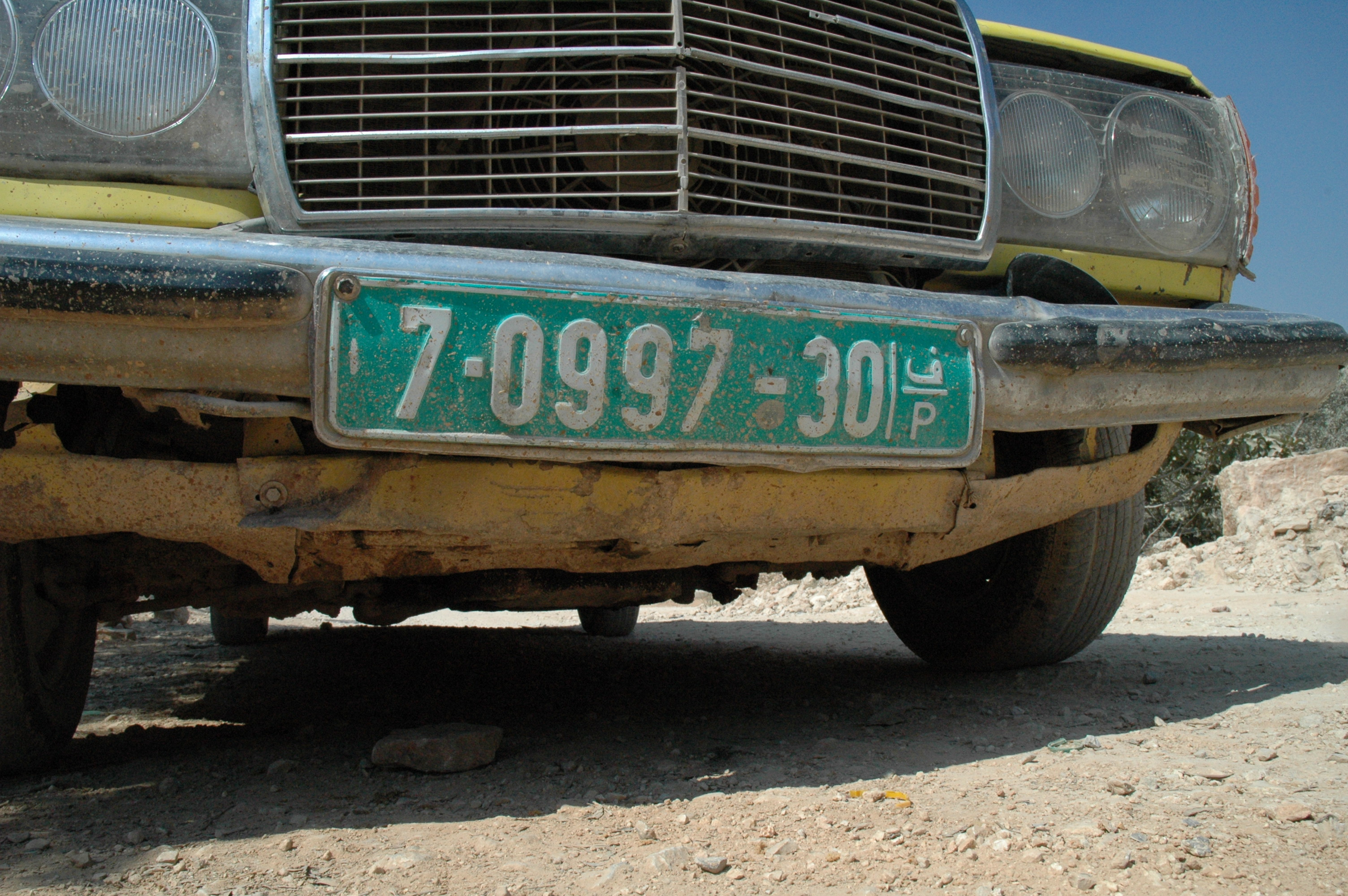 A license plate on a car in the West Bank.